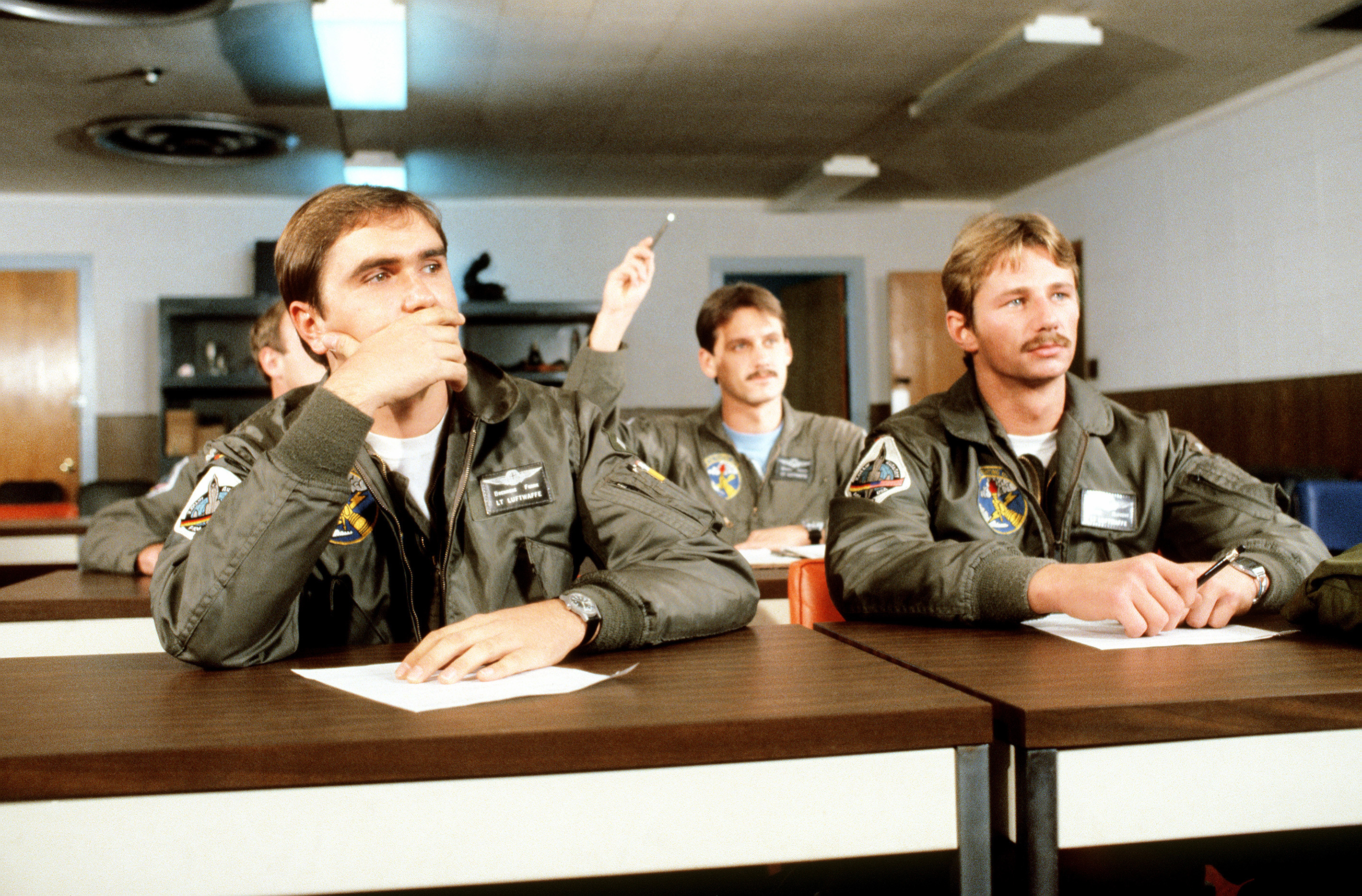 German pilots receive classroom instruction on the Lockheed F-104G Starfighter aircraft by members of the U.S. Air Force 69th Tactical Fighter Training Squadron at Luke Air Force Base, Arizona (USA), on 29 November 1982.